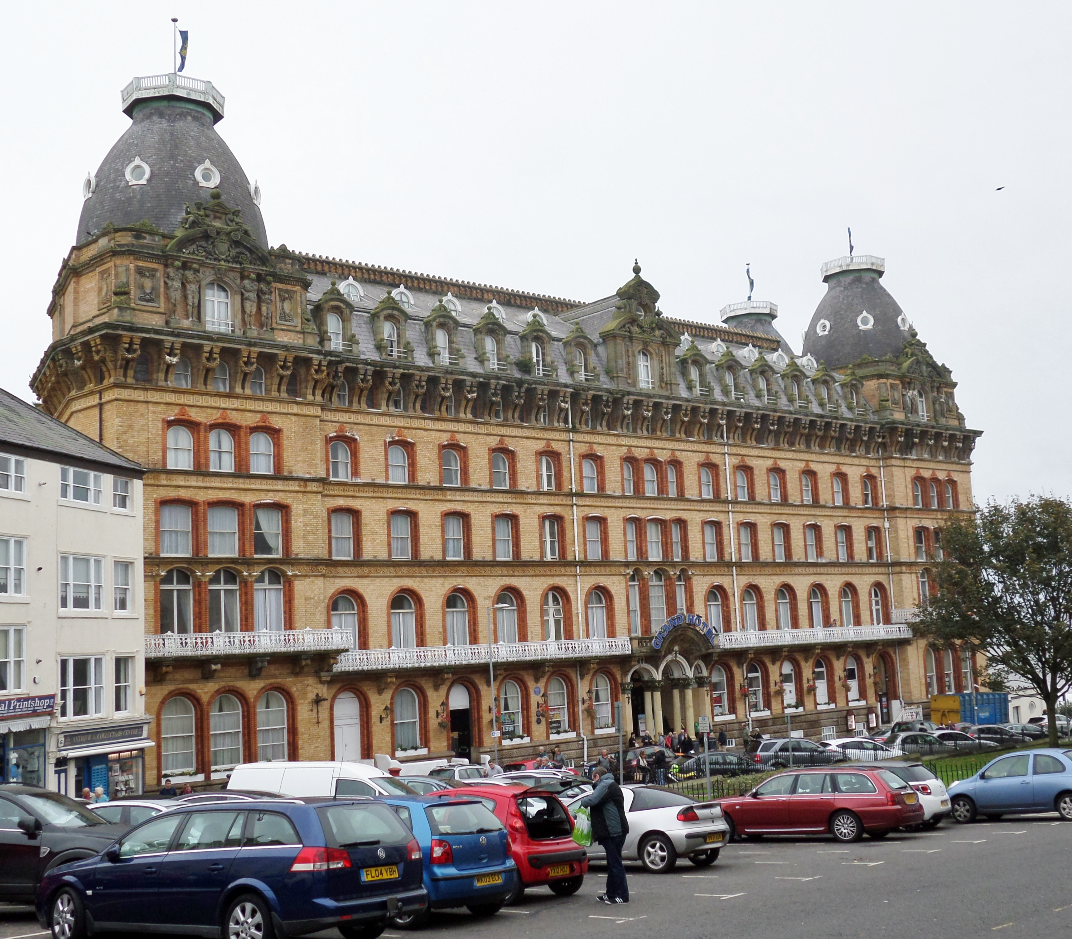 The Grand Hotel frontage, Scarborough, England.